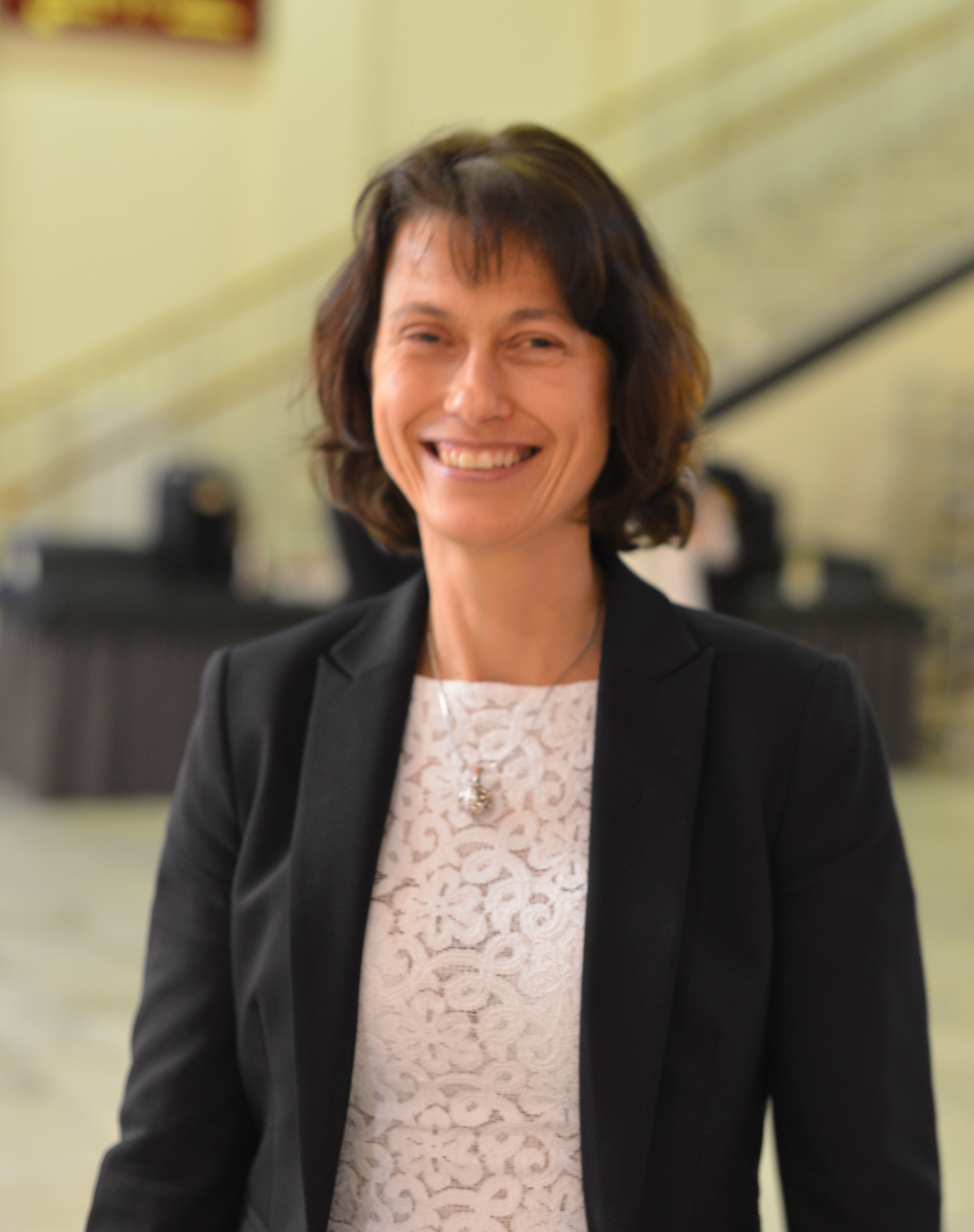 Sara Mazur, Head of Research, Ericsson Group